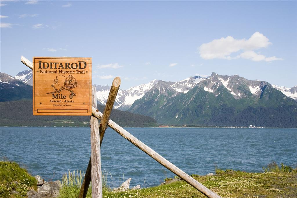 (Photograph by Tony Beeman)